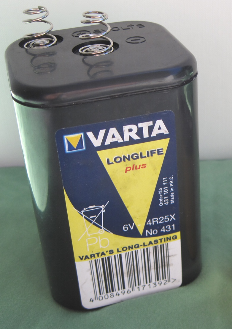 6-volt lantern battery